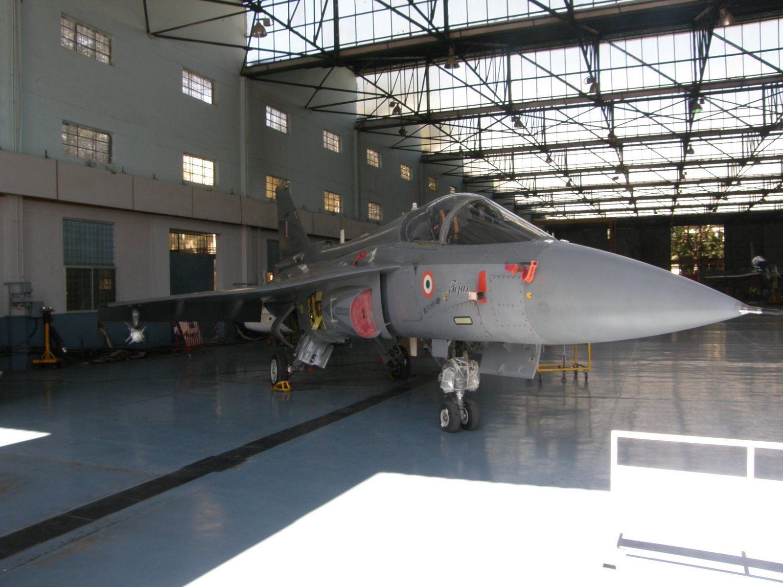 An HAL Tejas in its hangar in Bangalore. This aircraft, with designation LSP-1, is the first to be painted in the Indian Air Force's traditional Air Force Grey camouflage pattern. Note the screws on the LRU panels, which have been loosened. The Tejas carries an R-73 on its outer-wing pylon.